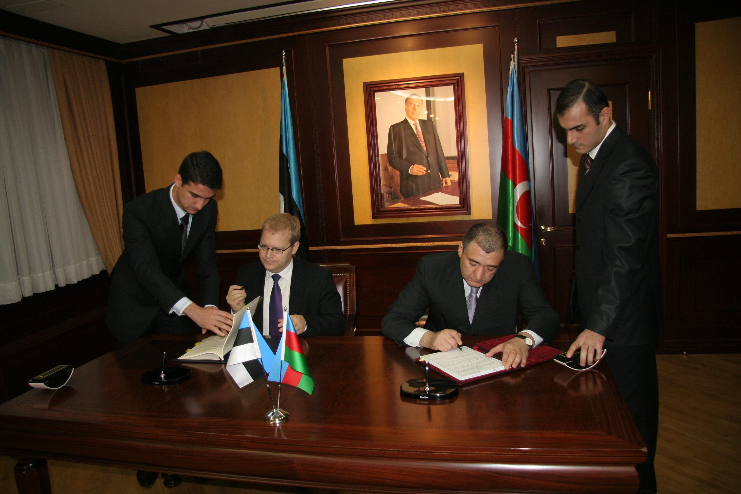 Estonian foreign minister Urmas Paet and Azerbaidjani finance minister Fazil Mammadov signing an agreement for the avoidance of double-taxation in Baku on October 30th, 2007.